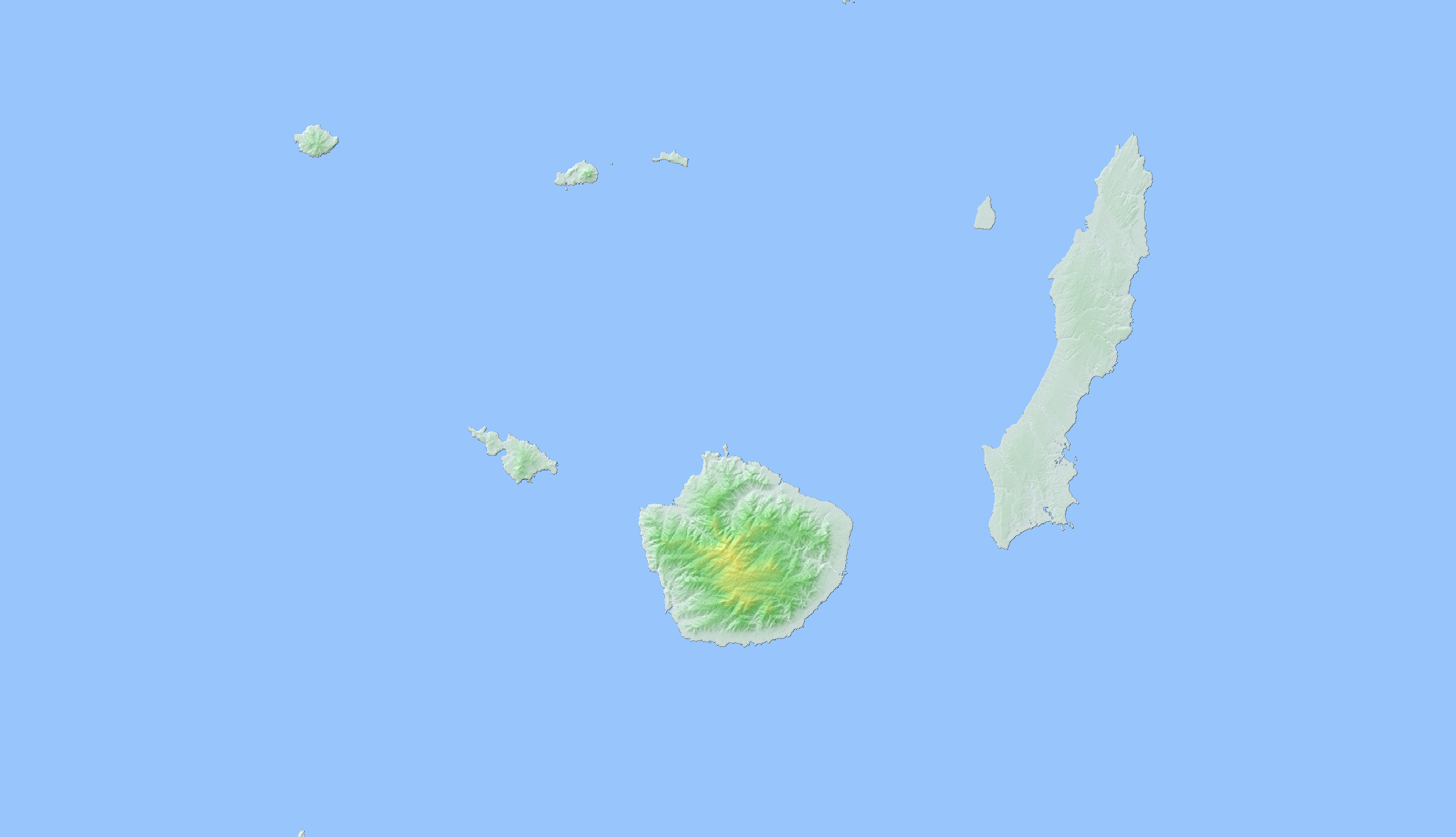 topographic map of Osumi islands.